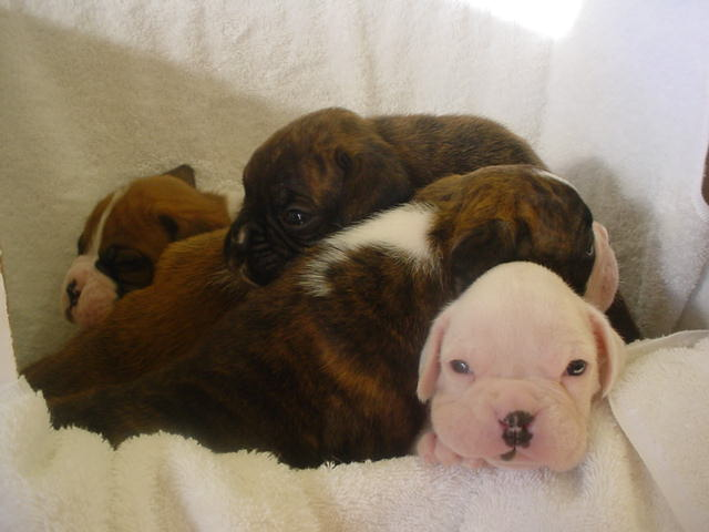 Five three and a half week old Boxer puppies.